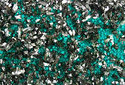 Brochantite, Chrysocolla Locality: Rokana Mine, Kitwe, Copperbelt Province, Zambia (Locality at ) Size: cabinet, 13.4 x 7.8 x 4.2 cm Brochantite on Chrysocolla NEVER seen anything from this place except libethenite, nor a brochantite quite like this from anywhere but a small find in Morocco...But, the thing is, this is also one of the world's great examples of crystallized euhedral brochantite - regardless of locale. This is an very large plate, with high quality and brilliant lustre. It is much more impressive in person, with the short, stout crystals to 5 mm leaping out and sparkling nicely. Its very hard to photograph how dramatic the contrast is for the deep forest green on the intense blue background, and I can assure you the impact in person is worth every bit of the money (again, aside from the beauty, I think its a significant piece for the species anyhow). IMPOSSIBLE TO PHOTOGRAPH - TURST ME, THIS THING IS DAZZLING in person.